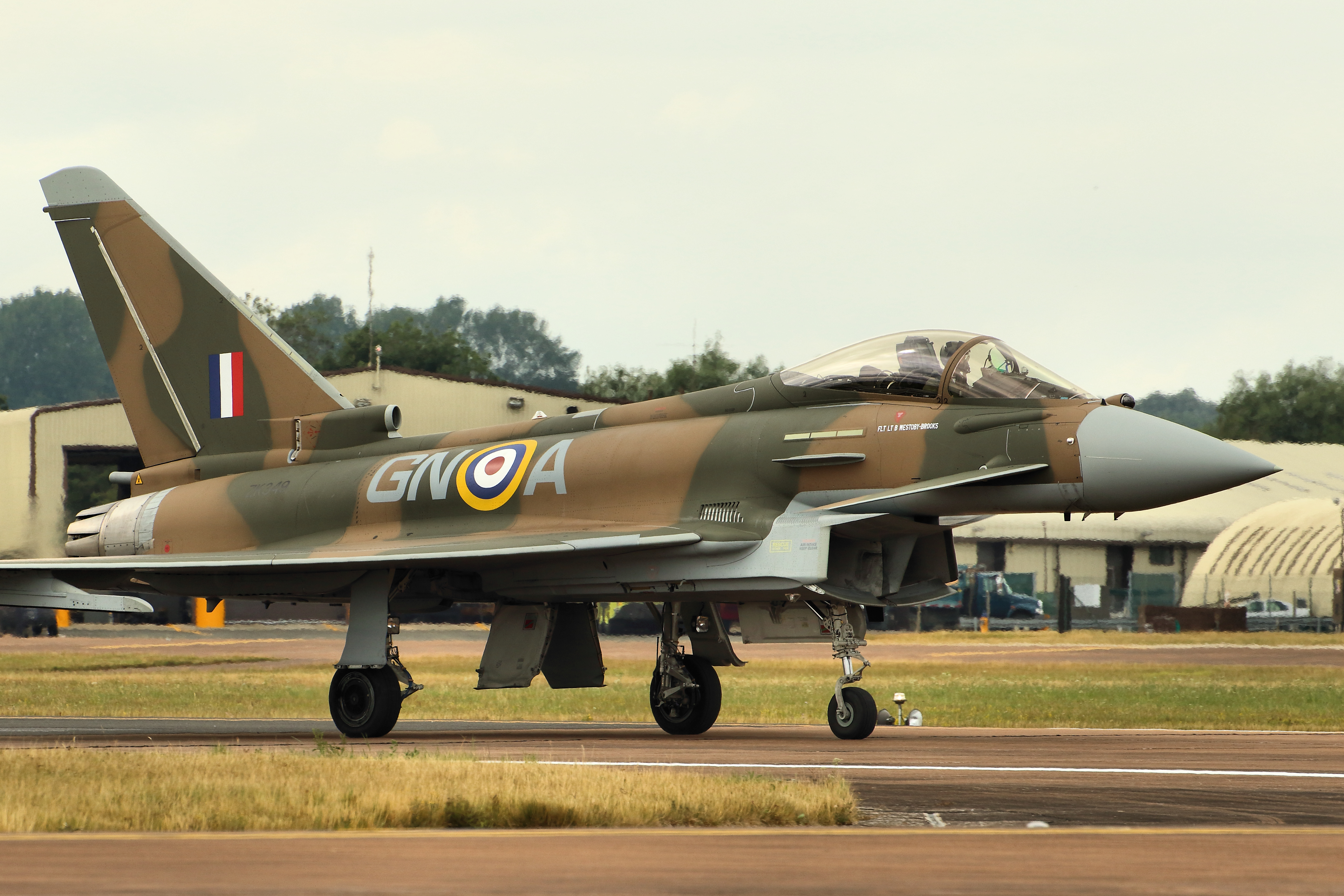 Typhoon - RIAT 2015. ZK349 is repainted in World War Two colours, and shows James Brindley Nicolson, VC's squadron number, GN-A of No. 249 Squadron RAF, to commemorate the 75th anniversary of the Battle of Britain.